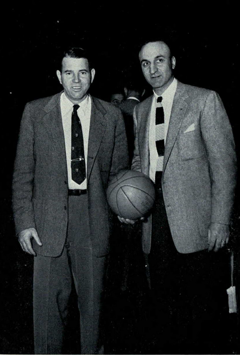 Photograph University of Michigan head basketball coach William Perigo (left) and assistant coach Matt Patanelli (right)